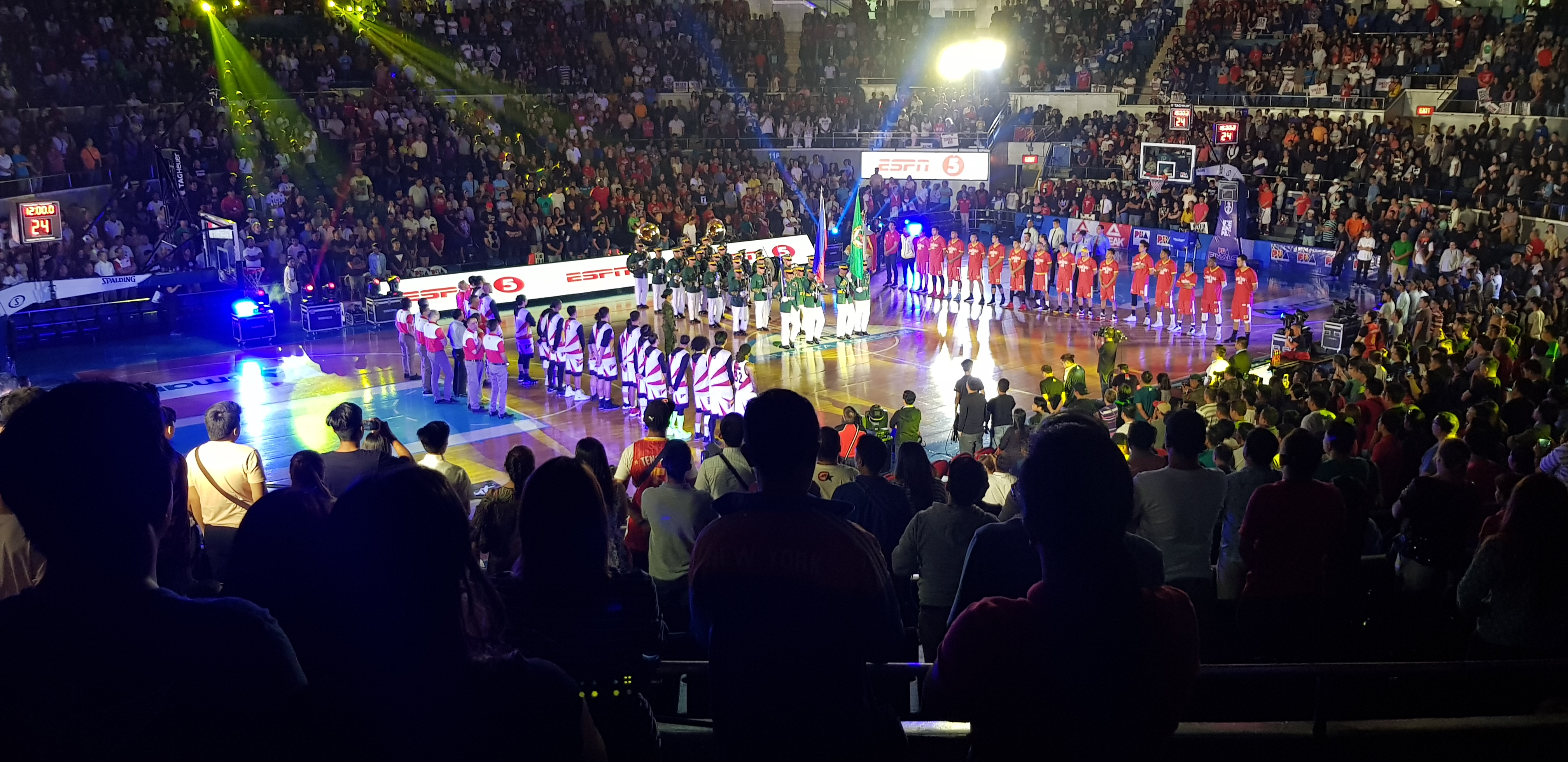 PBA - 2018 Commissioner's Cup Finals - Barangay Ginebra vs San Miguel (Game 1) - 2018-0727